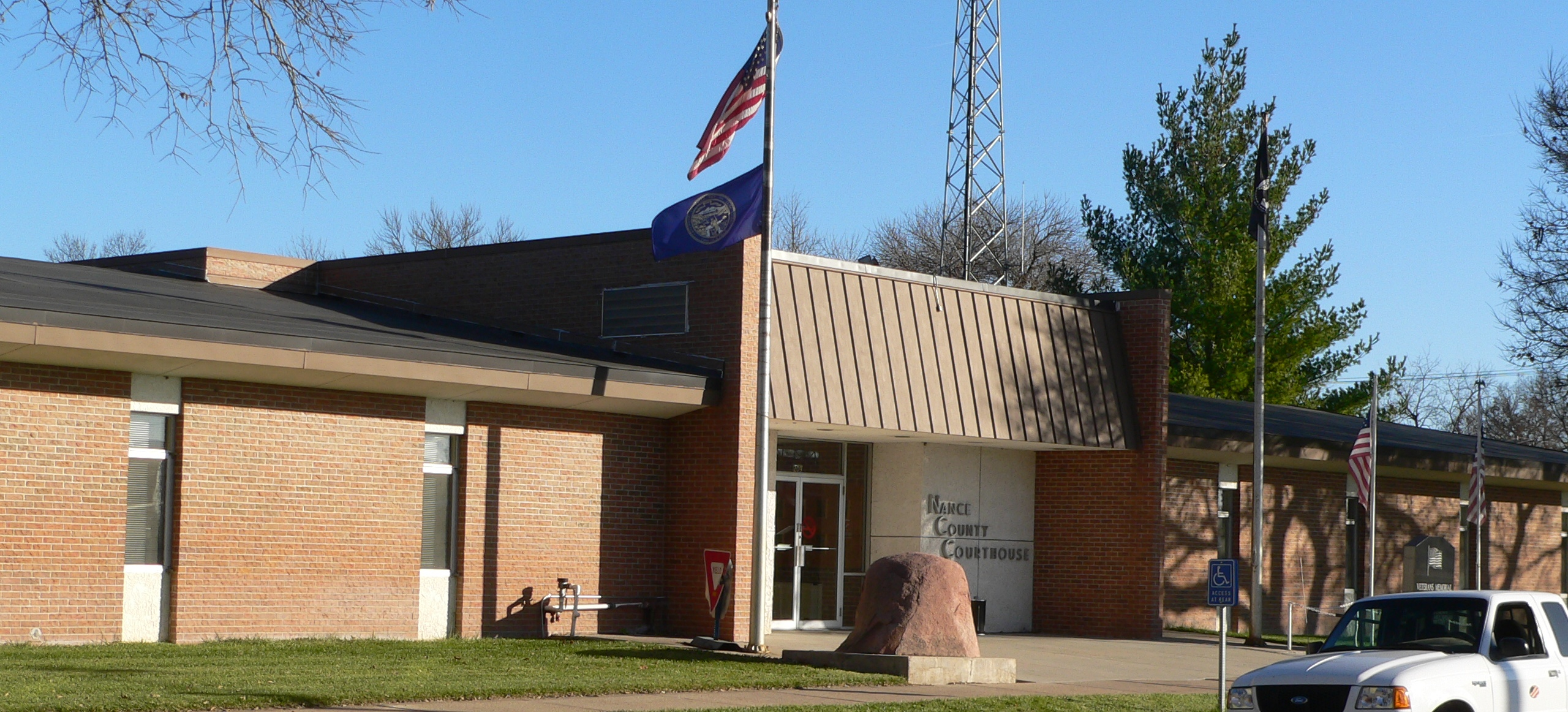 Front (west) entrance of Nance County Courthouse, located in Fullerton, Nebraska. The building was constructed in 1974.